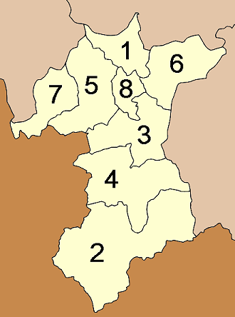 Map of Yala province, Thailand, showing the districts (Amphoe) Mueang Yala (อำเภอเมืองยะลา) Betong (อำเภอเบตง) Bannang Sata (อำเภอบันนังสตา) Than To (อำเภอธารโต) Yaha (อำเภอยะหา) Raman (อำเภอรามัน) Kabang (อำเภอกาบัง) Krong Pinang (กิ่งอำเภอกรงปินัง)